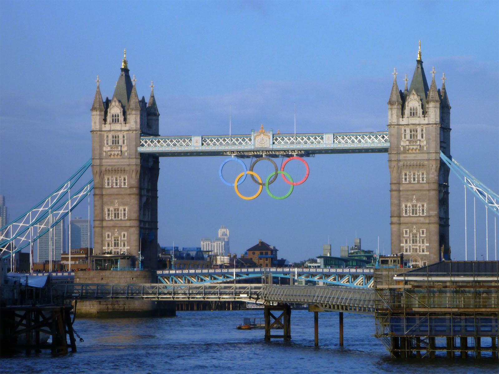 The olympic rings on Tower Bridge for the 2012 Summer Olympic Games